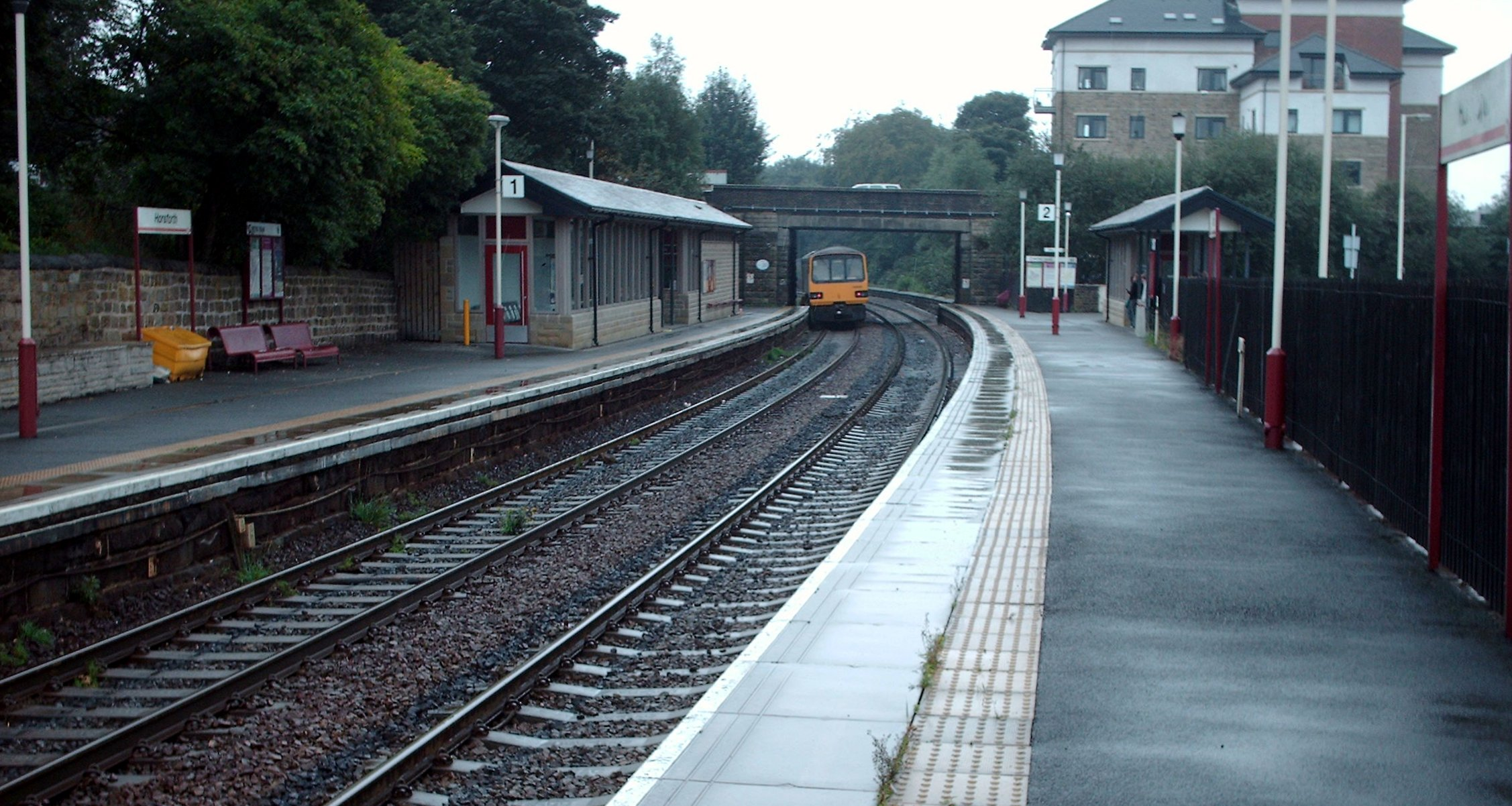 Horsforth railway station, West Yorkshire, England. 144018 departing for Leeds.